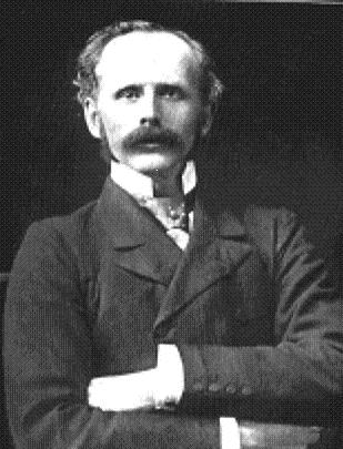 The picture is the frontispiece of The Life of Henry Drummond by George Adam Smith, published in 1898.